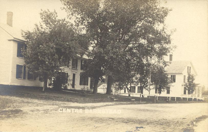 View of Center Barnstead, New Hampshire